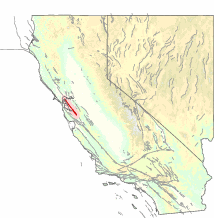 Schematic of the Hayward Fault Zone in California.